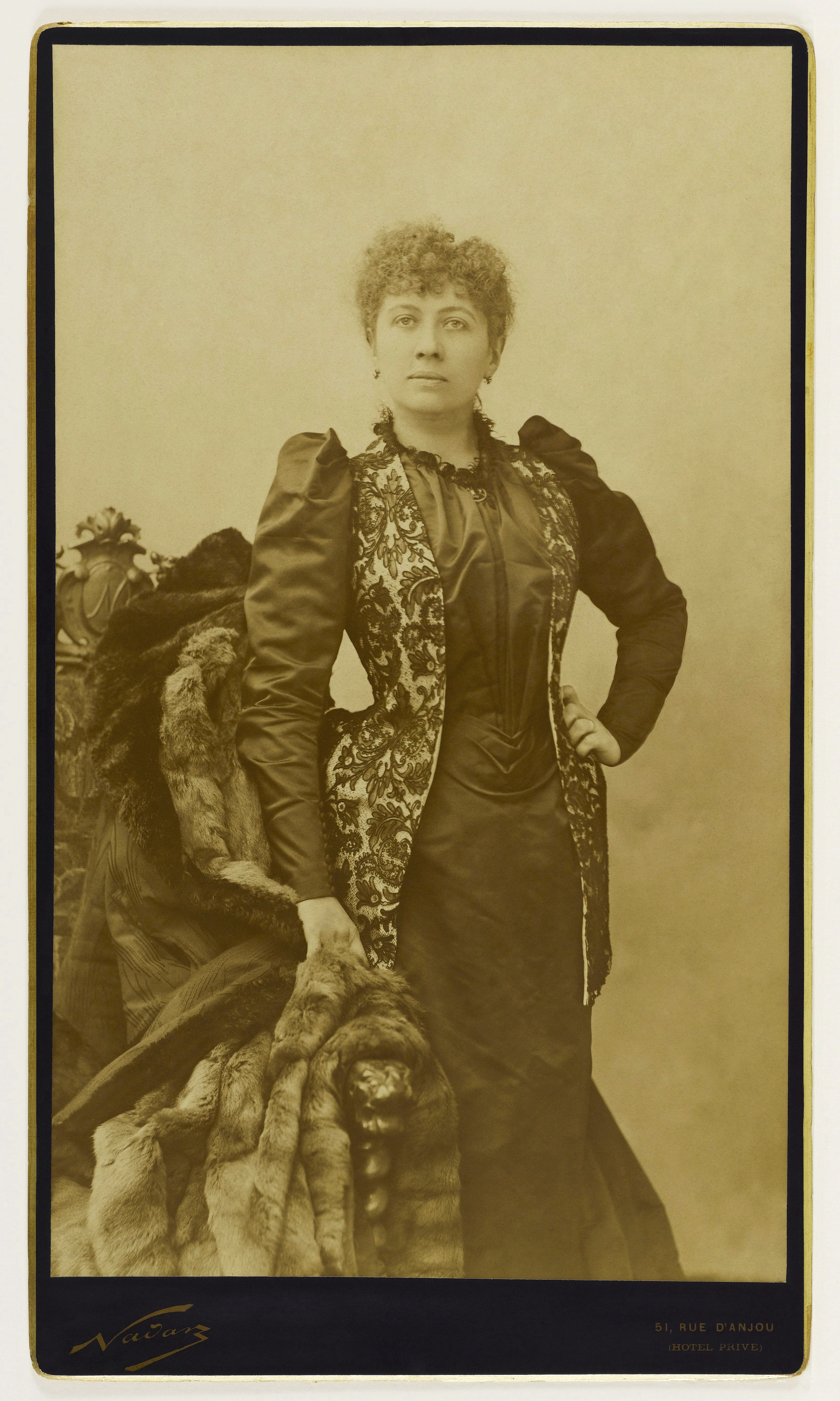 "Séverine, debout, un poing sur la hanche" by Nadar. Séverine, pen name of Caroline Rémy de Guebhard, was a French journalist, anarchist, and feminist.